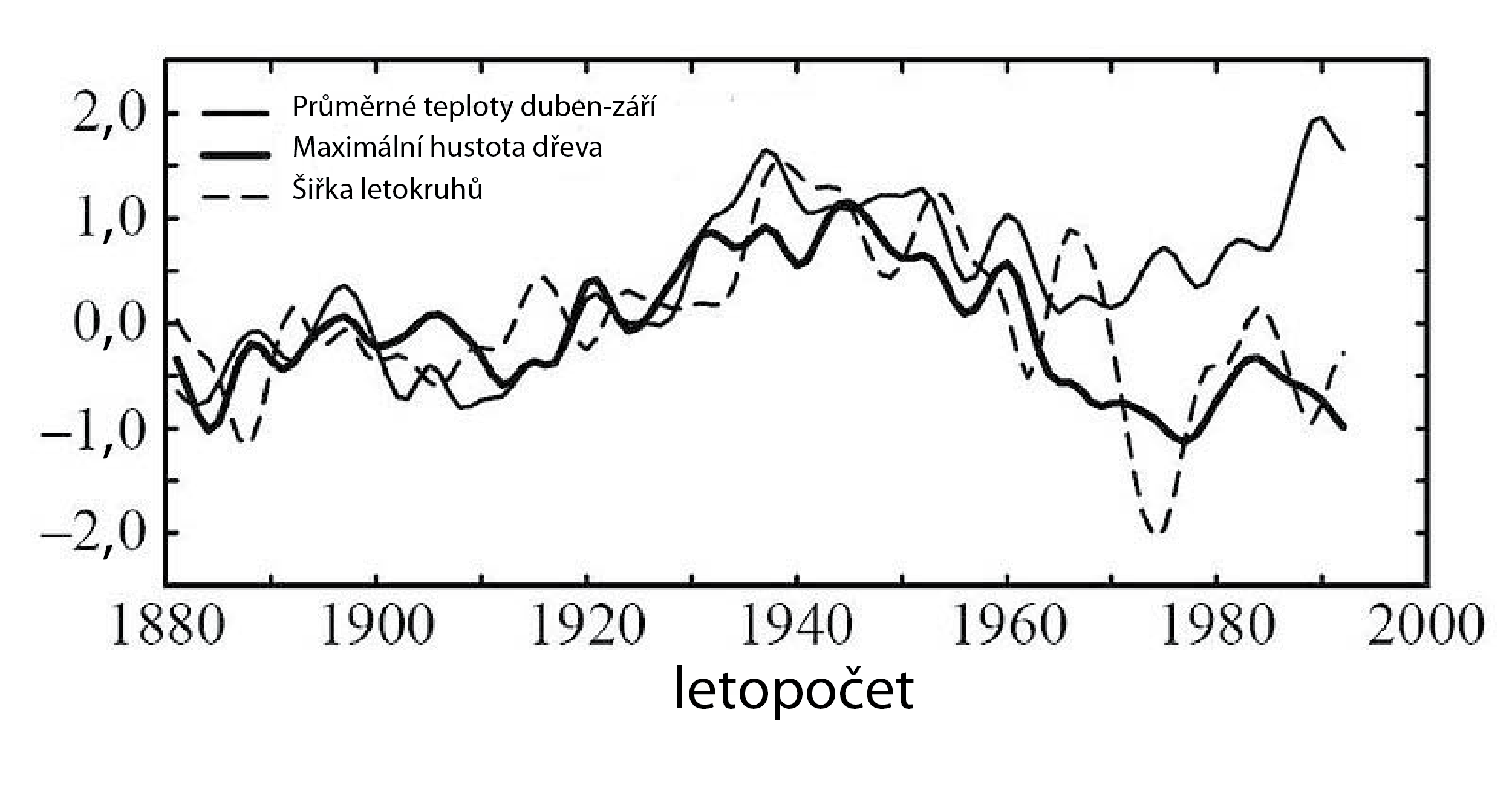 Twenty-year smoothed plots of averaged ring-width (dashed) and tree-ring density (thick line), averaged across all sites, and shown as standardized anomalies from a common base (1881-1940), and compared with equivalent-area averages of mean April-September temperature anomalies (thin solid line). From Briffa 1998 - translation to Czech